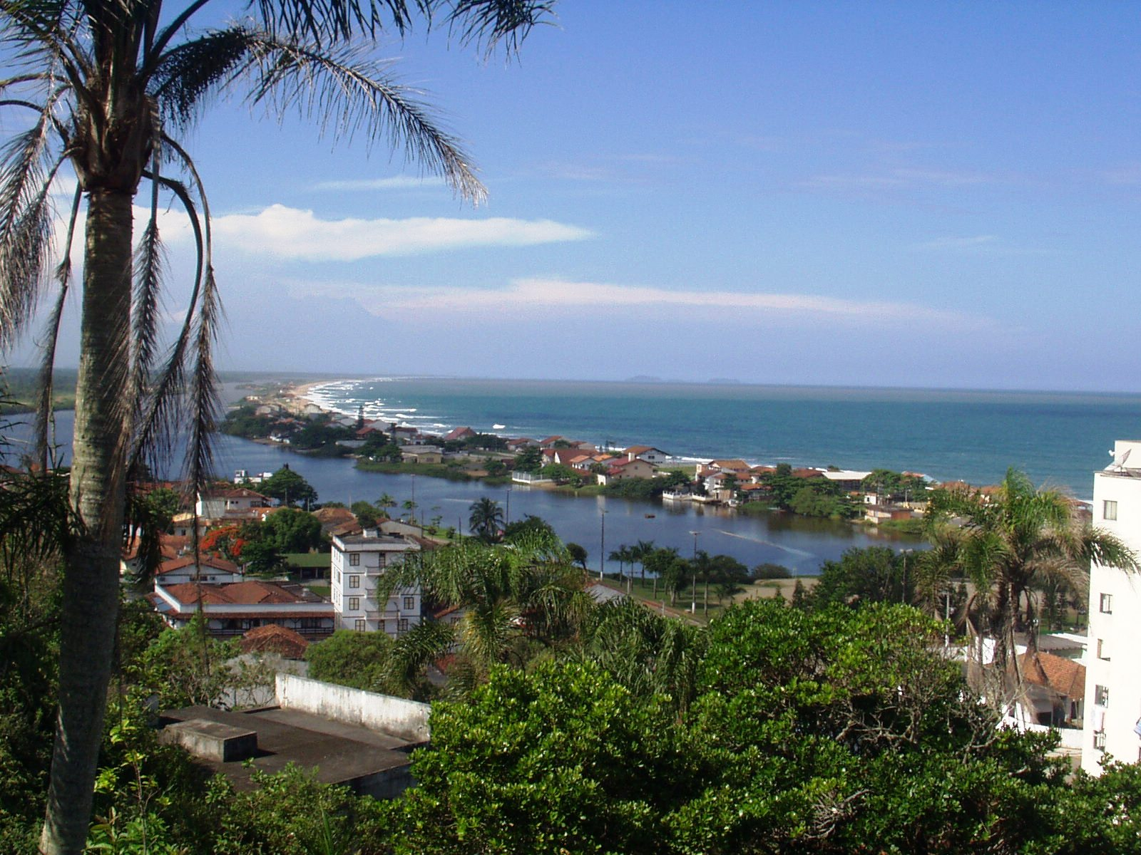 Barra Velha is a resort town and county seat of about 20,000 inhabitants in the Northern region of Santa Catarina, Brazil